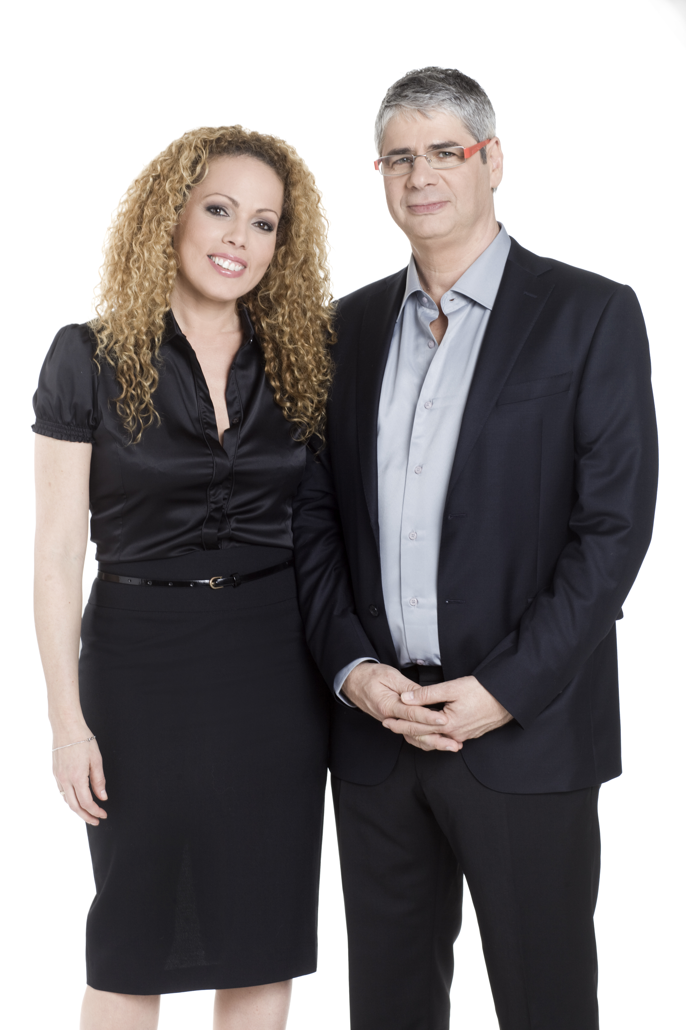 Channel 10 News (Israel) Journalist